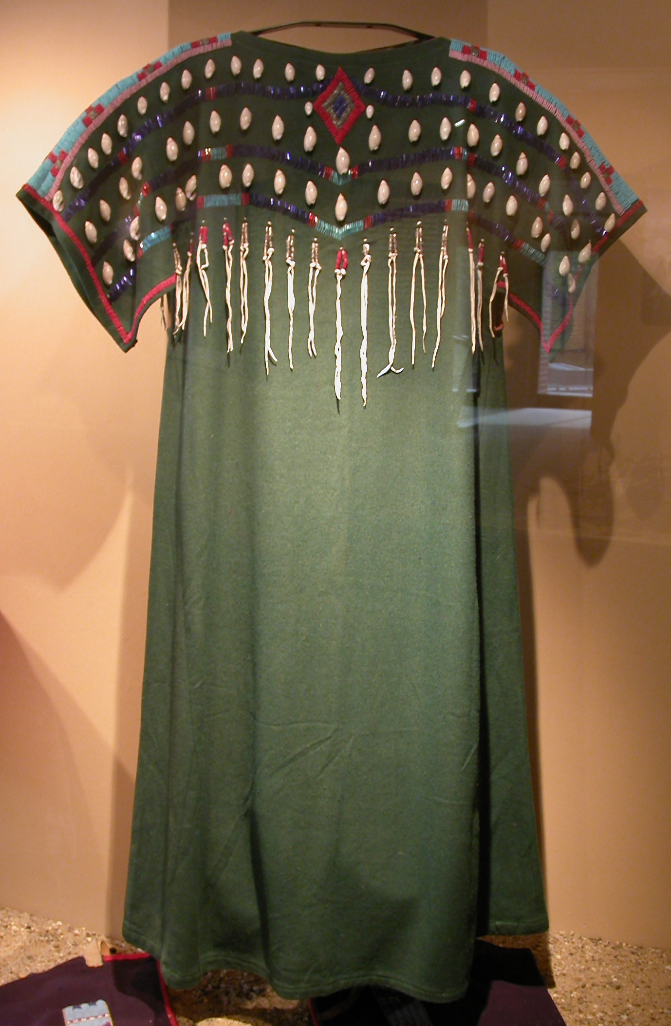 Westfälisches Museum für Naturkunde (Münster), Woman's clothing of the Yakima